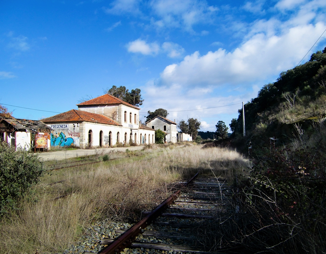 La antigua estación de ferrocarril de La Fregeneda